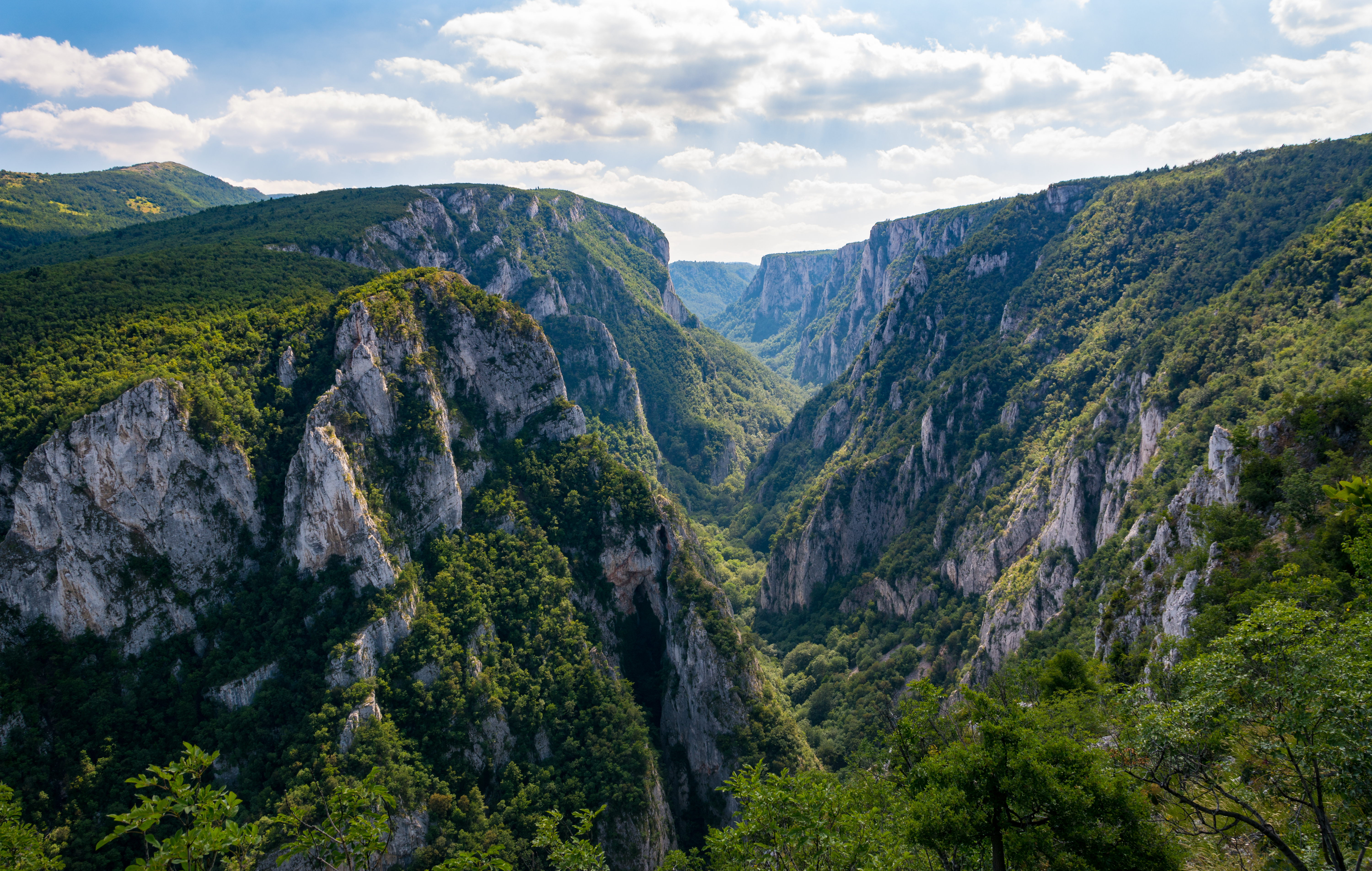 Ово је фотографија заштићеног природног добра у Србији под шифром: СП245This is a a photo of a natural area in Serbia with ID: СП245 It is one of the most inhospitable canyons in Serbia. Its depth is between 300 and 500 m and it has 70 caves and pits. Legend has it that after the battle of Marica in 1371, the cavalry of Prince Lazar came to this area, and stayed in the canyon for some time, hence the name. It became one of the most important places of refuge.